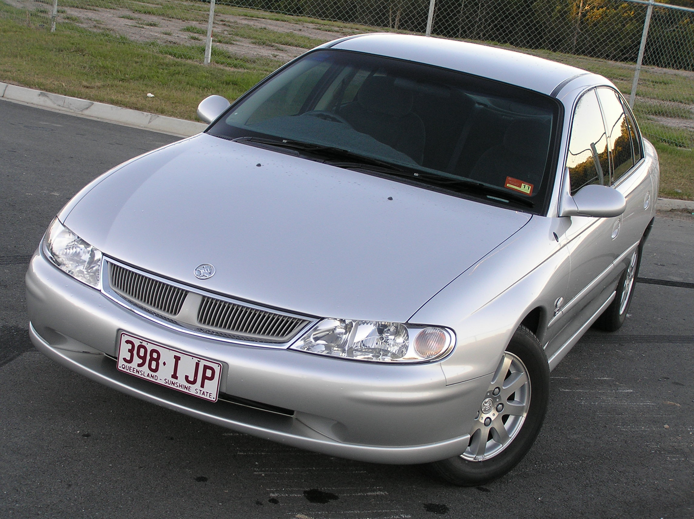 2001 Holden Berlina (VX) sedan. Photographed in Queensland, Australia.